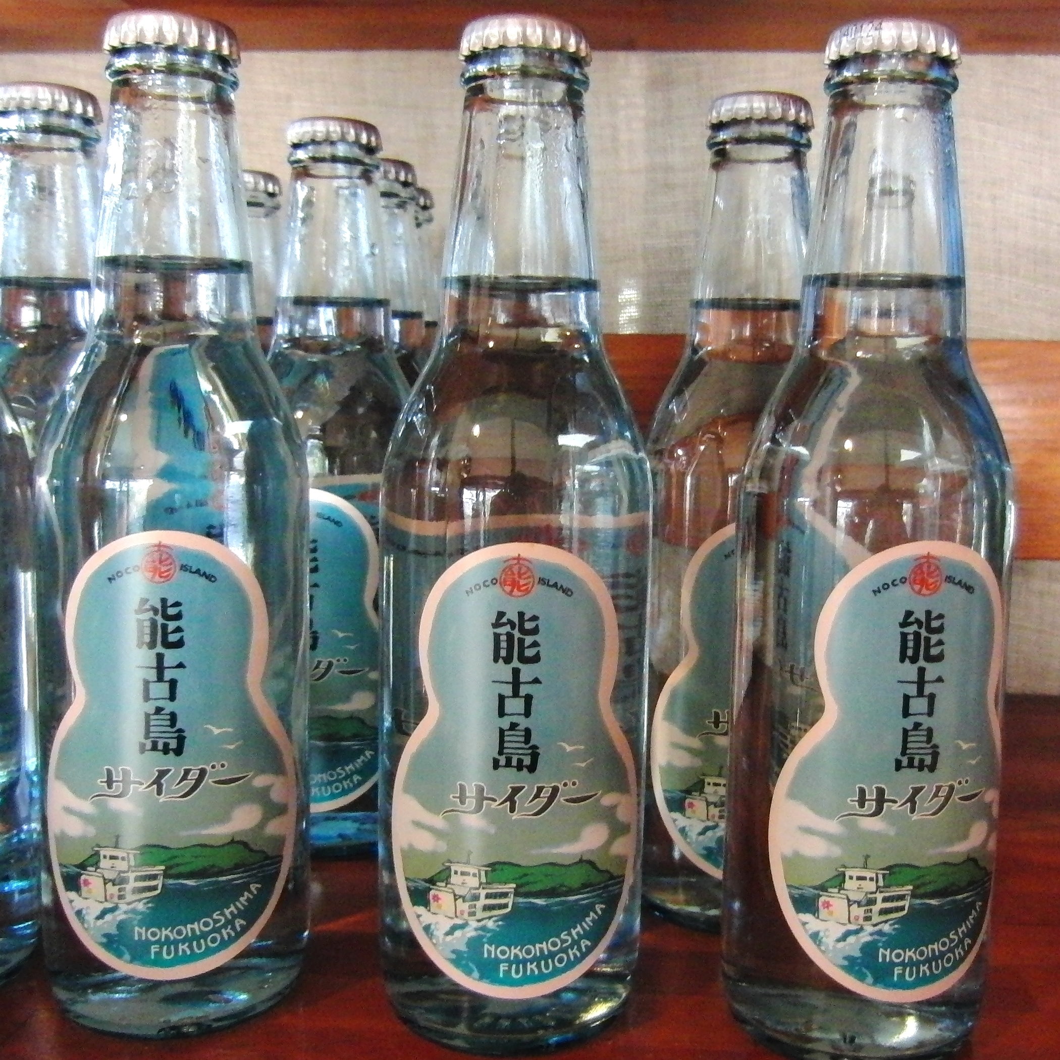 Nokonoshima cider, cider of Nokono-shima, Fukuoka, Japan.